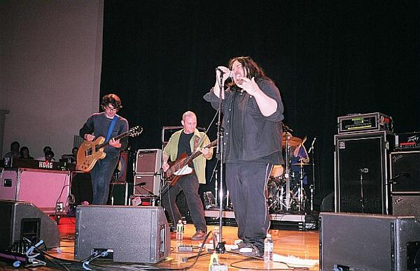 Deep Wound Northampton, MA USA April 30, 2004 photo: Bruce W. Siart uploaded to Wikipedia by Bruce W. Siart